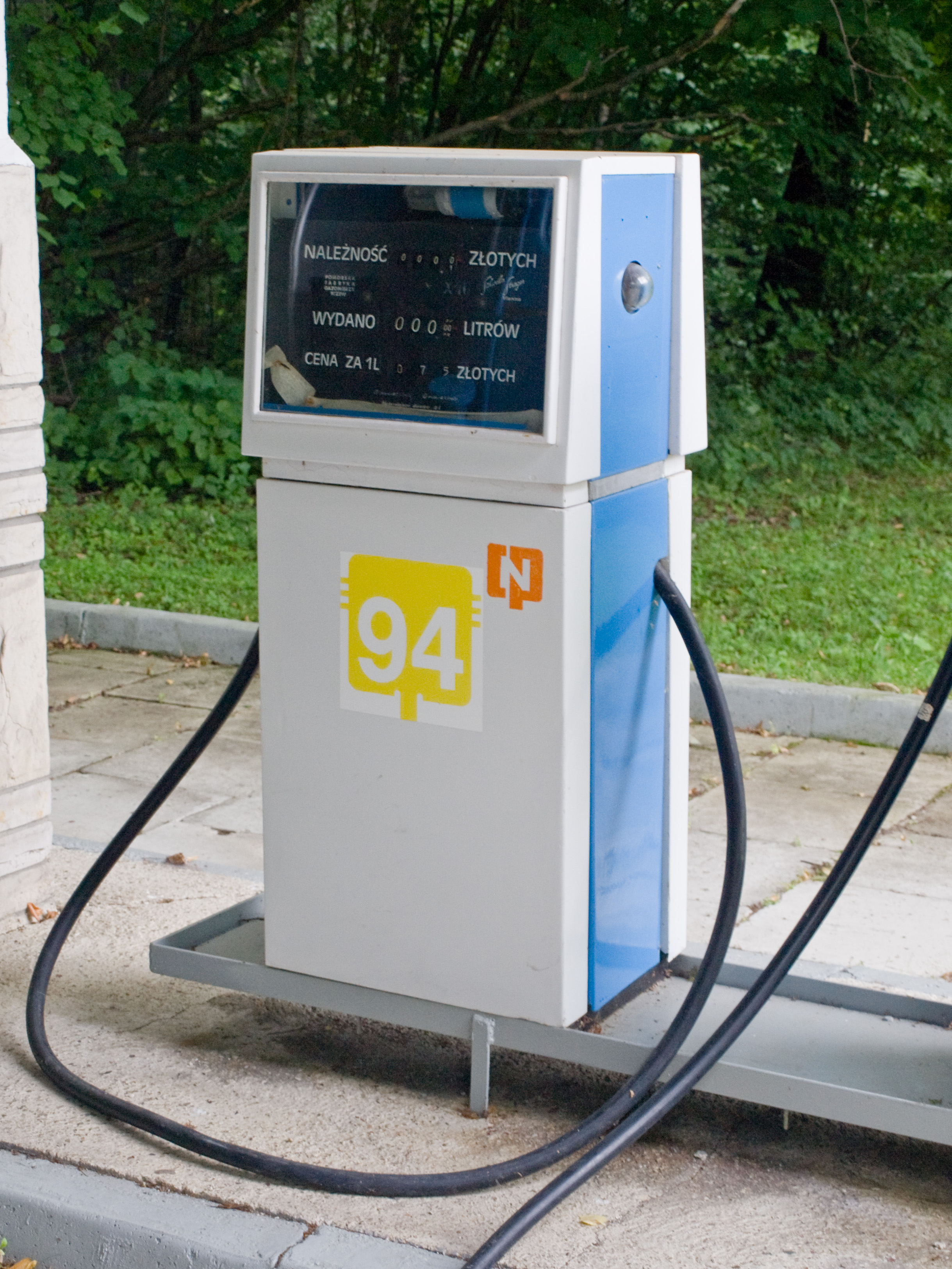 Technical museum, Bóbrka, Subcarpathian Voivodeship